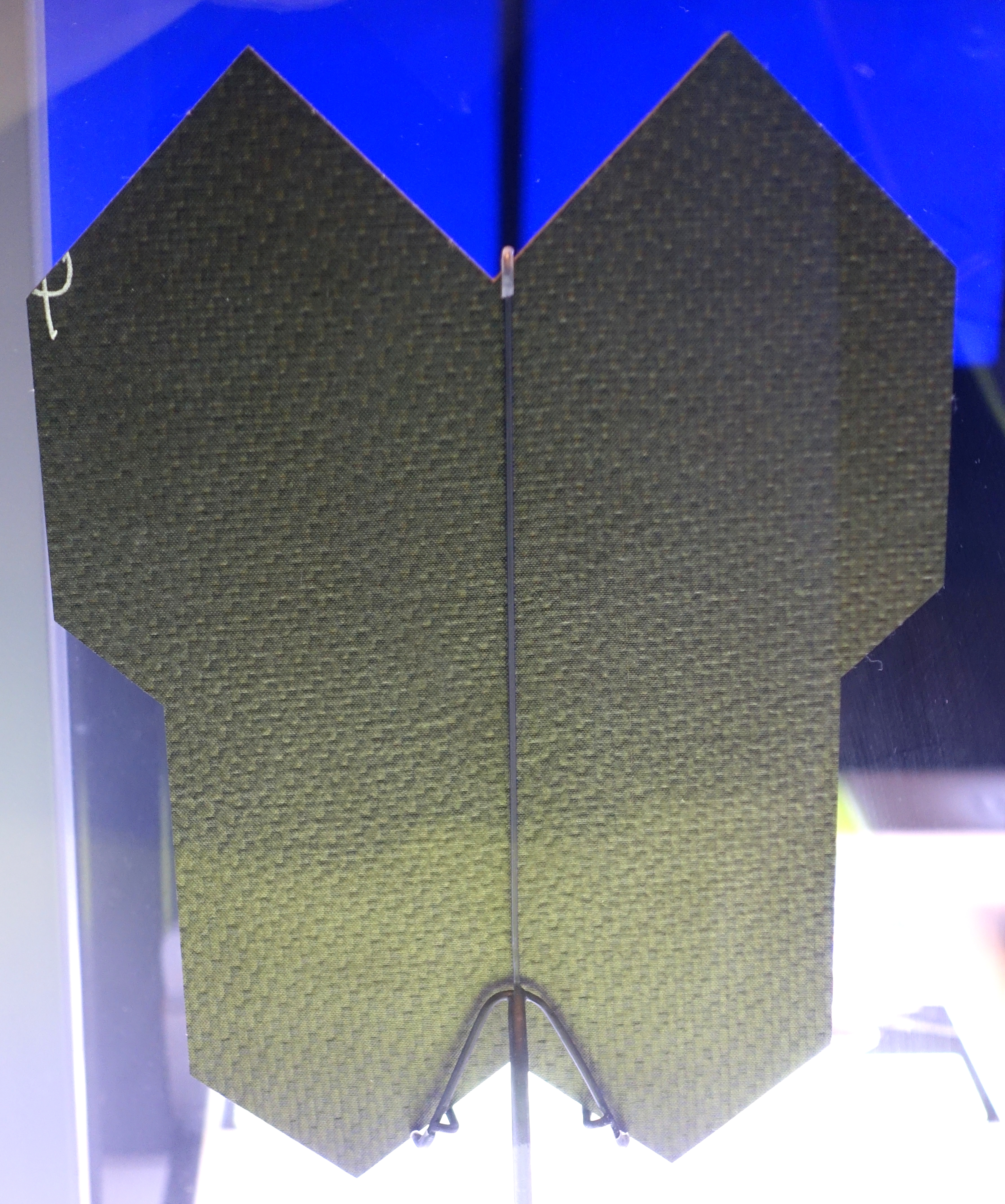 Exhibit in the Museum of Science and Industry, Chicago, Illinois, USA.